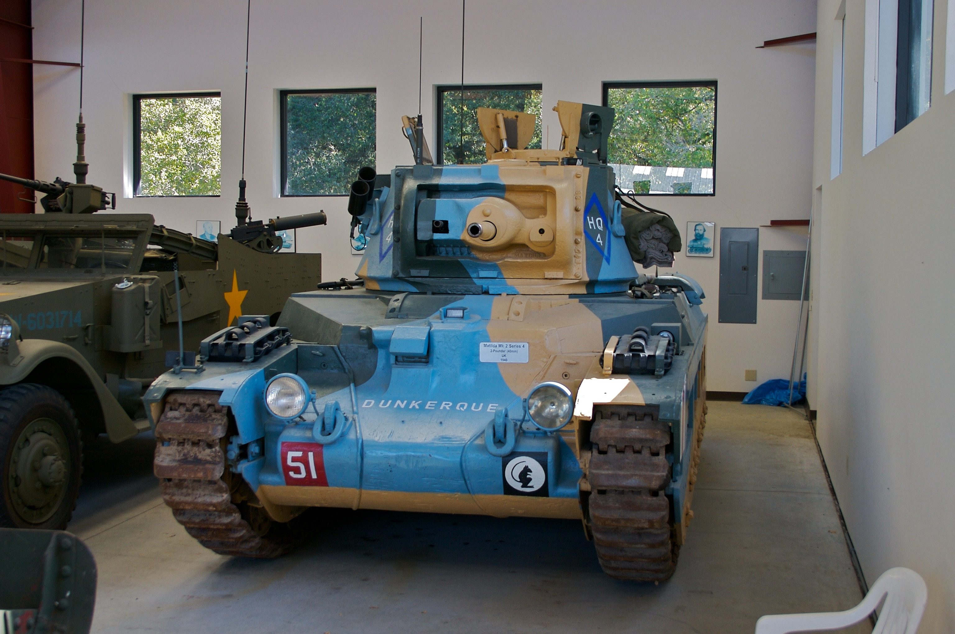 Matilda MK2 Series 4 armed with a 40mm (2 pounder) cannon. From a private collection. The tank is painted in a camouflage scheme known as the Caunter Scheme; however the use of the colour blue is now widely thought to be inauthentic.